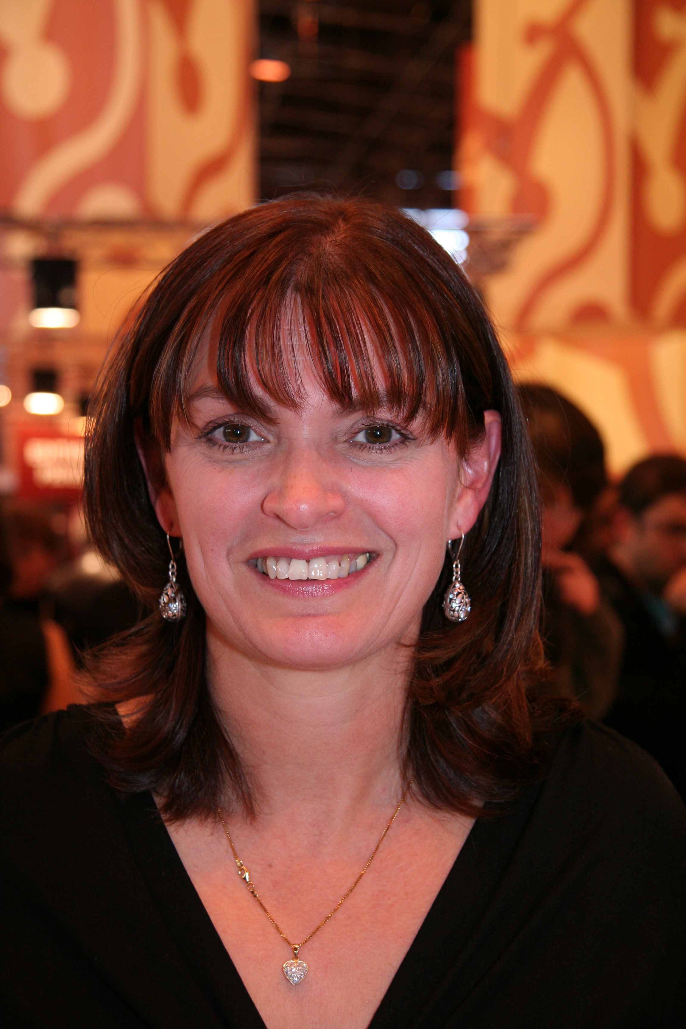 Autograph session with Fiona McIntosh at Salon du livre 2009 (Paris, France)